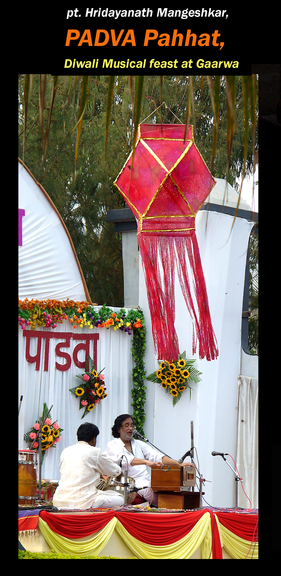 Classical Musical concert during the festival of Deevali festival has gained hugh popullarity, with traditional Indian Lanterns gracing the stage